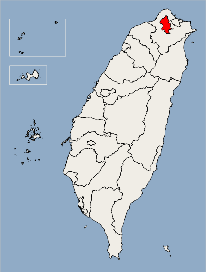 Location of Taipei City in Taiwan Bân-lâm-gú: Tâi-pak-tshī tī Tâi-uân ê uī-tì./台北市佇台灣的位置。